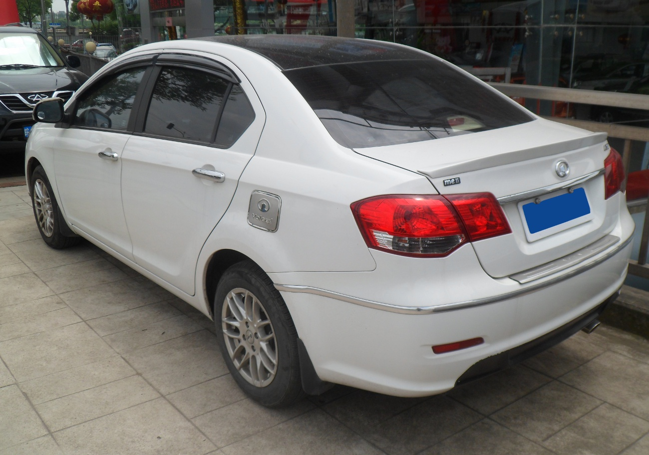 Great Wall Voleex C30 photographed in Shanghai, China.